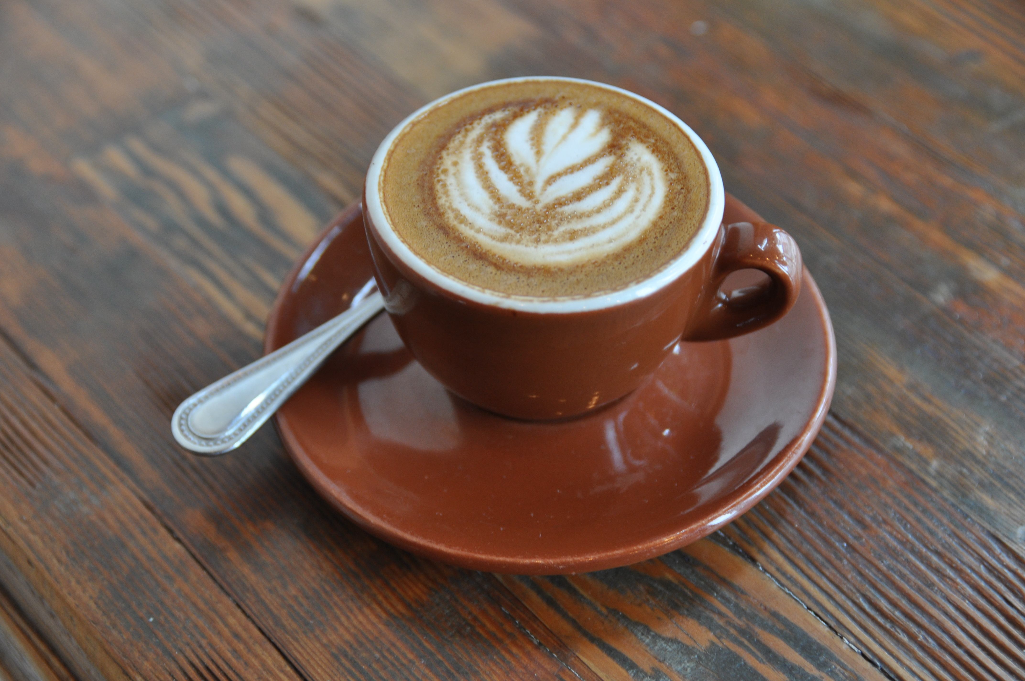 Macchiato with Coffee Art at Four Barrel Coffee in San Francisco.